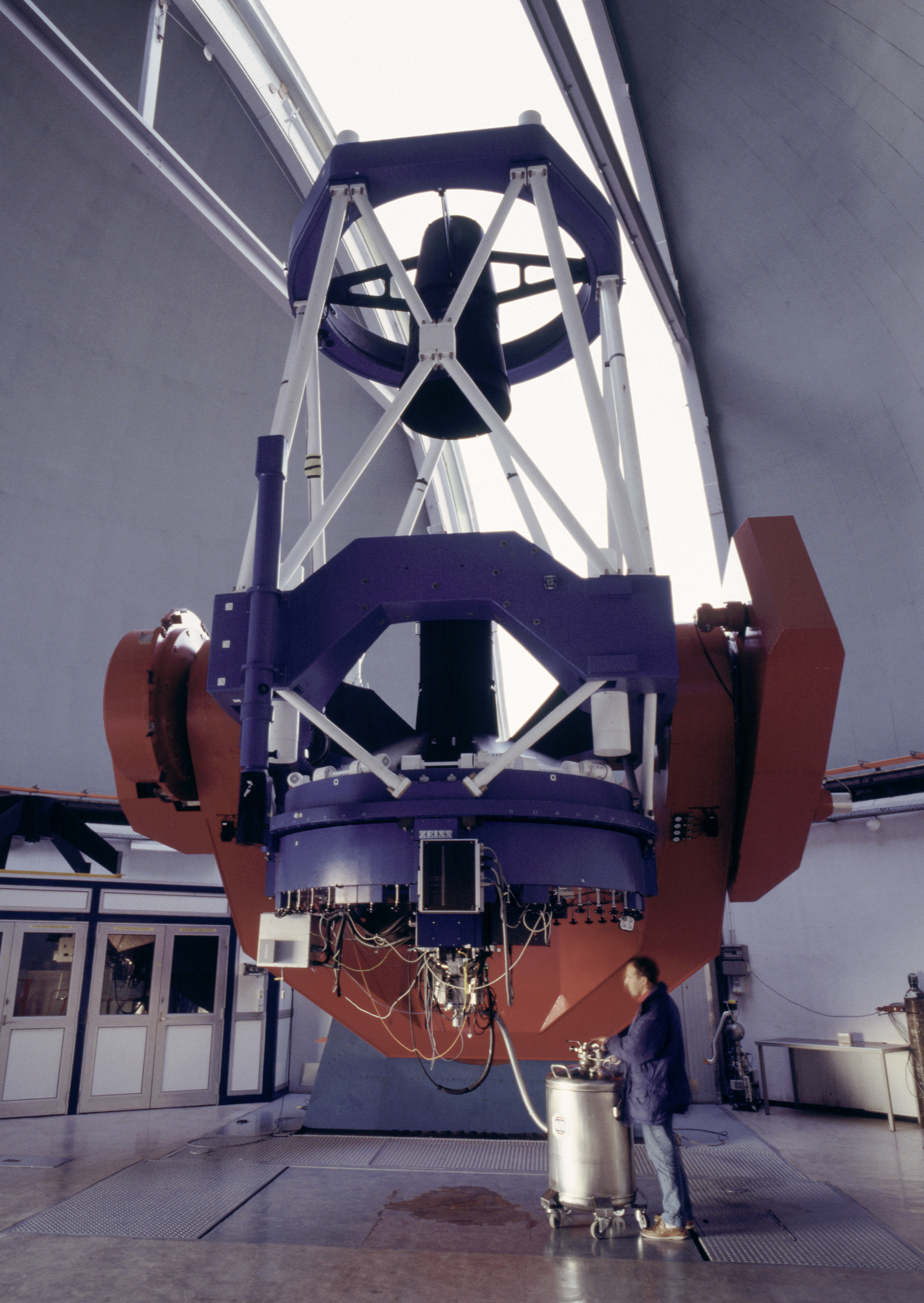 The 2.2m telescope at La Silla has been in operation since early 1984 and is on indefinite loan to ESO from the Max Planck Gesellschaft. Operation and maintenance of the telescope is the responsibility of ESO. The telescope (which is a fork mounted Ritchey-Chretien) was built by Zeiss and has been in use at La Silla since 1984. It is equipped with WFI, FEROS and GROND.